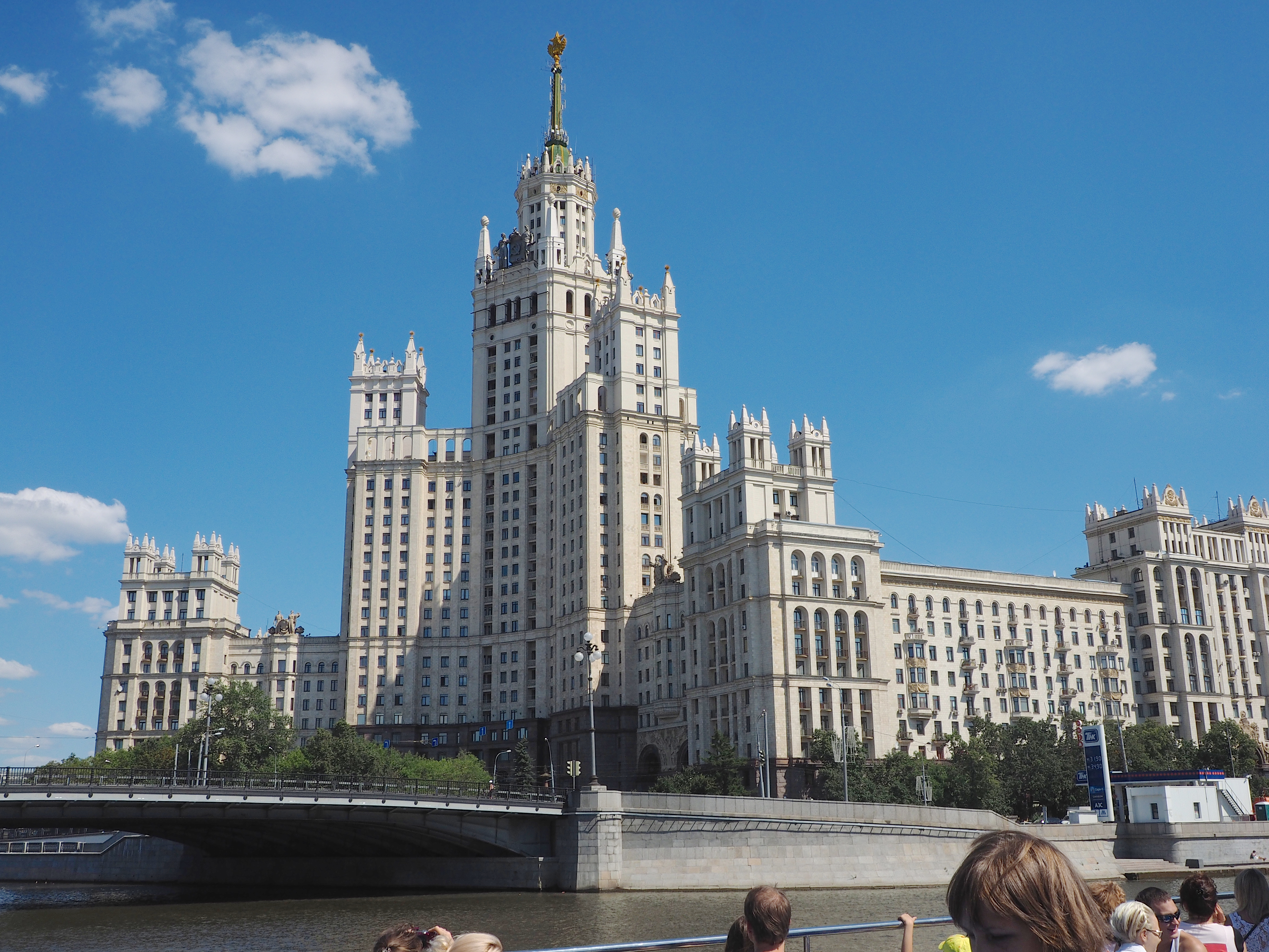 Kotelnicheskaya Embankment Building is one of seven Stalinist skyscrapers laid down in September, 1947 and completed in 1952, designed by Dmitry Chechylin (then Chief Architect of Moscow) and Andrei Rostkovsky. The main tower has 32 levels (including mechanical floors) and is 176 metres (577 ft) tall. The building also incorporates a 9-story apartment block facing Moskva River, designed by the same architects in 1938 and completed in 1940. Originally build in stern early Stalinist style, with wet stucco wall finishes, it was re-finished in terra cotta panels in line with the main tower and acquired ornate pseudo-Gothic crowns over its 12-story raised corners and center tower. By the end of World War II, the side wing was converted to multi-family kommunalka housing, in a contrast to the planned elite status of the main tower. The main tower, of a conventional steel frame structural type, has a hexagonal cross-section with three side wings (18-storeys, including two mechanical floors). While it is not exceptionally tall or massive, the "upward surge" of five stepped-up layers, from a flat 9-storey side wing to the spire, produce a visual image of a far superior structure. The structure hides behind itself a so-called "Shvivaya Gorka", a hill with historical architecture and a maze of steeply inclined streets. Chechulin was initially criticized for complete disregard of this area, but his bureaucratic influence brushed off any criticisms.